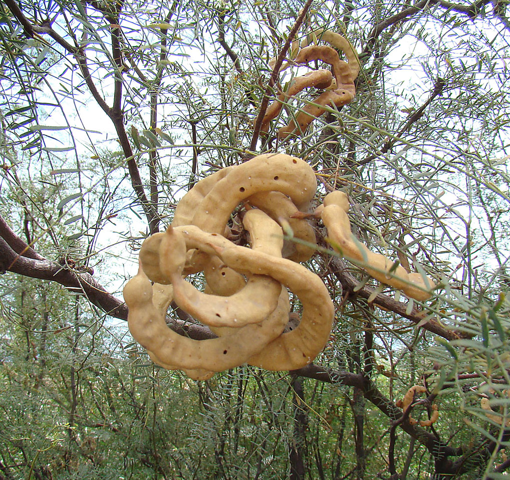 Pods of the Chilean Mesquite in Argentina. In context at